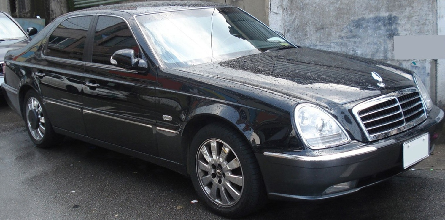 SsangYong New Chairman